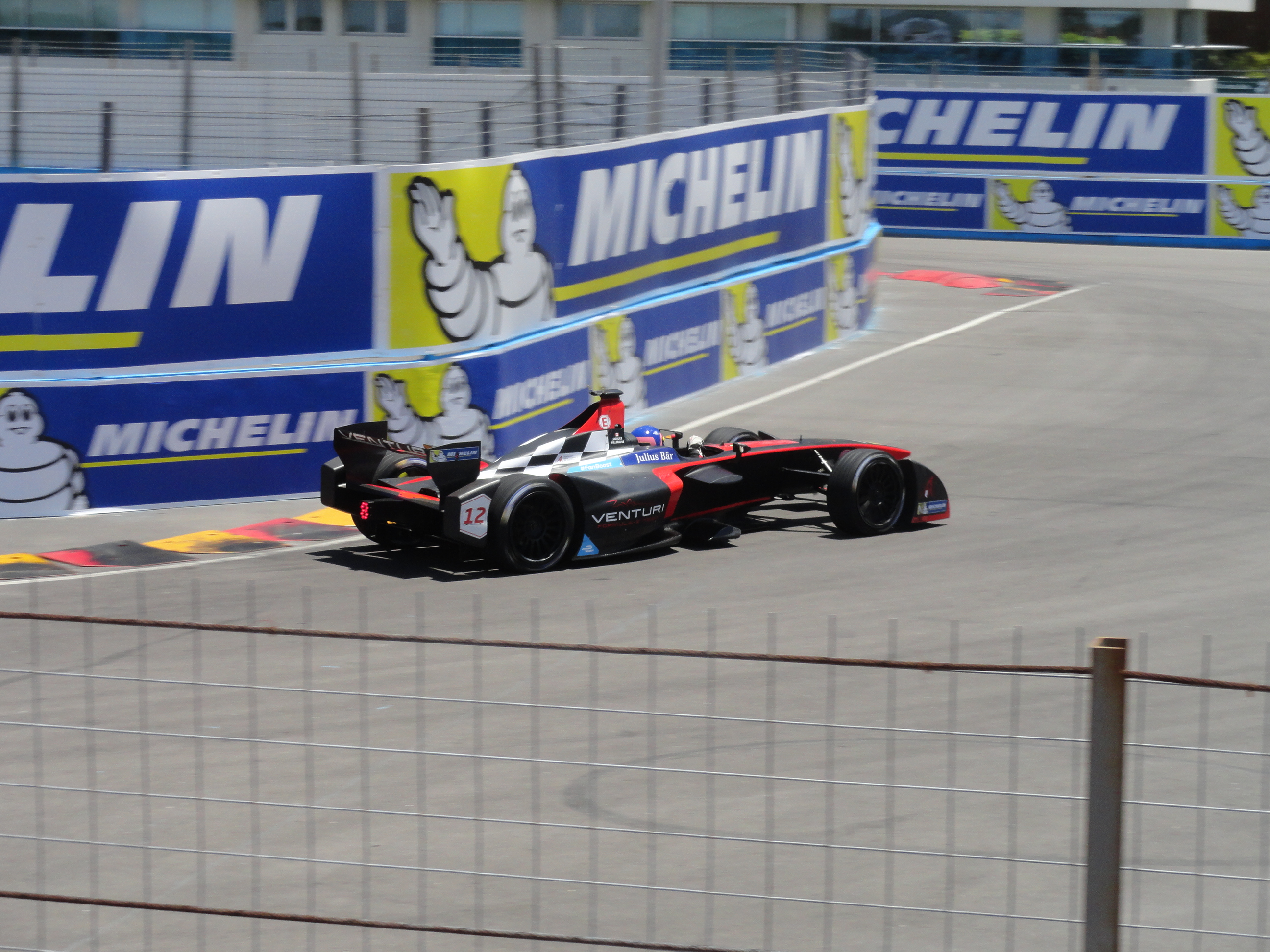 2015 Punta del Este ePrix qualifying